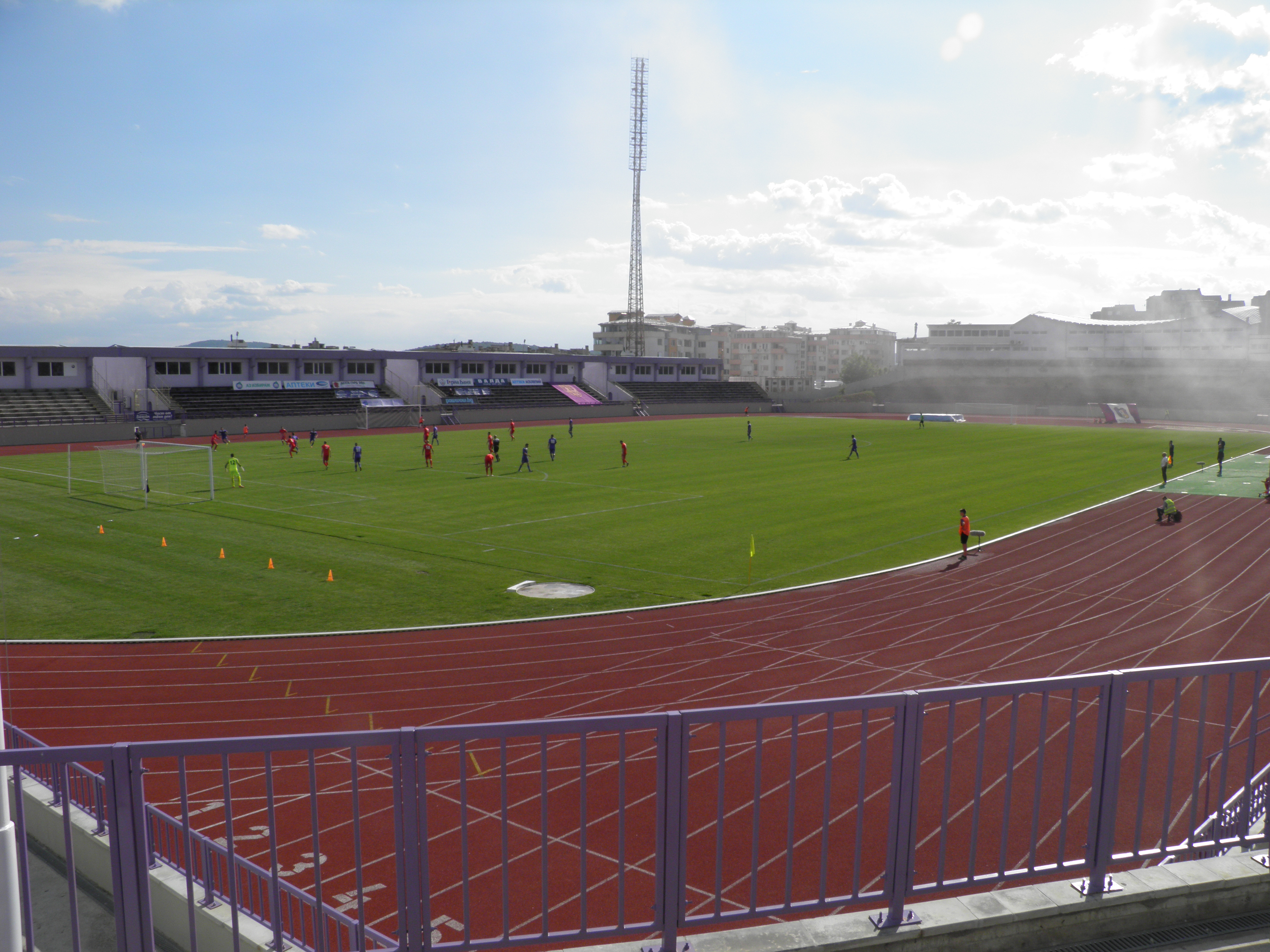 Etar vs Tsarsko selo